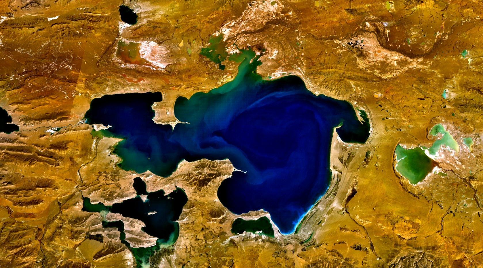 Lake Serling_Tsho satellit image